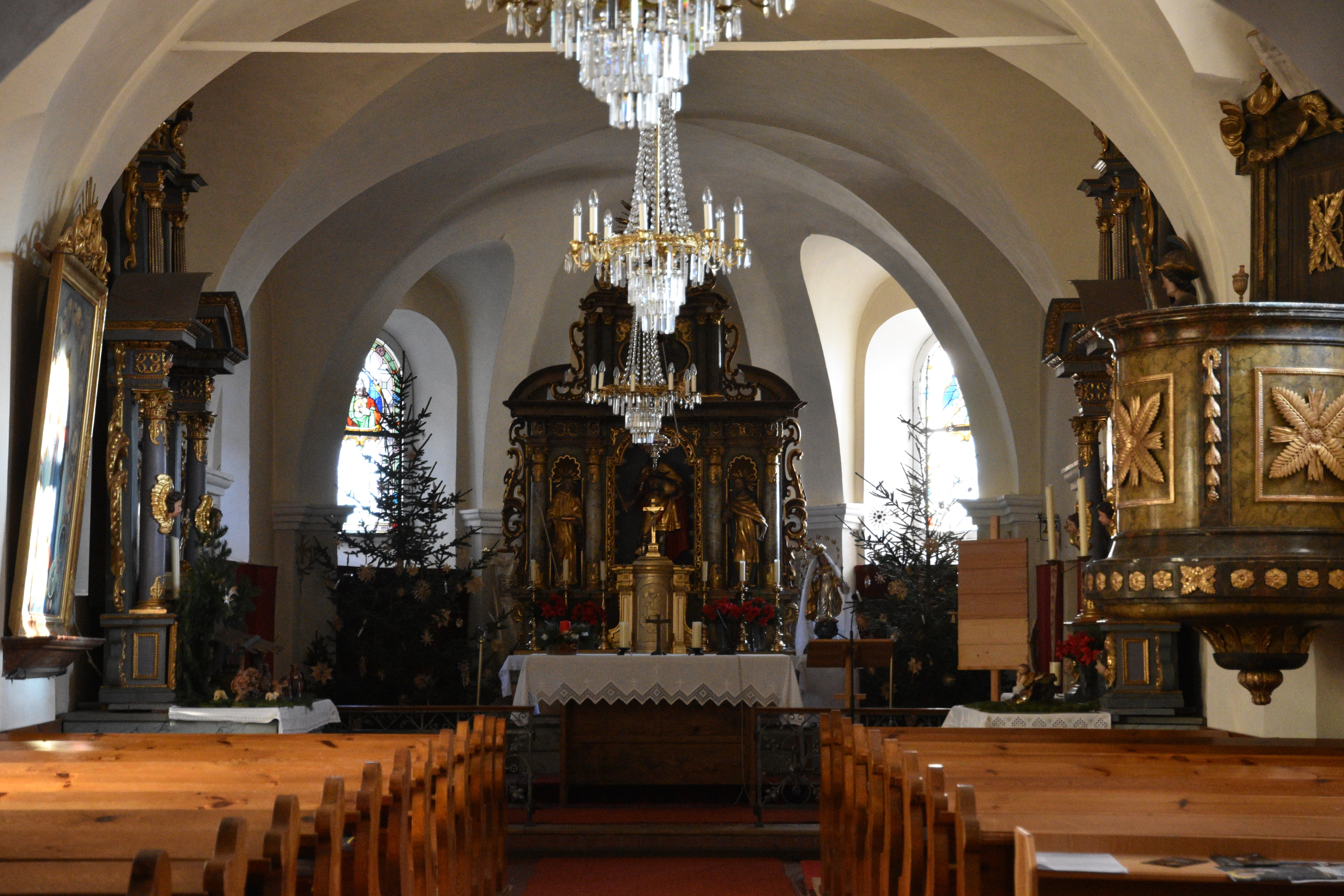 Church Pfarrkirche Sankt Oswald in Freiland Interior